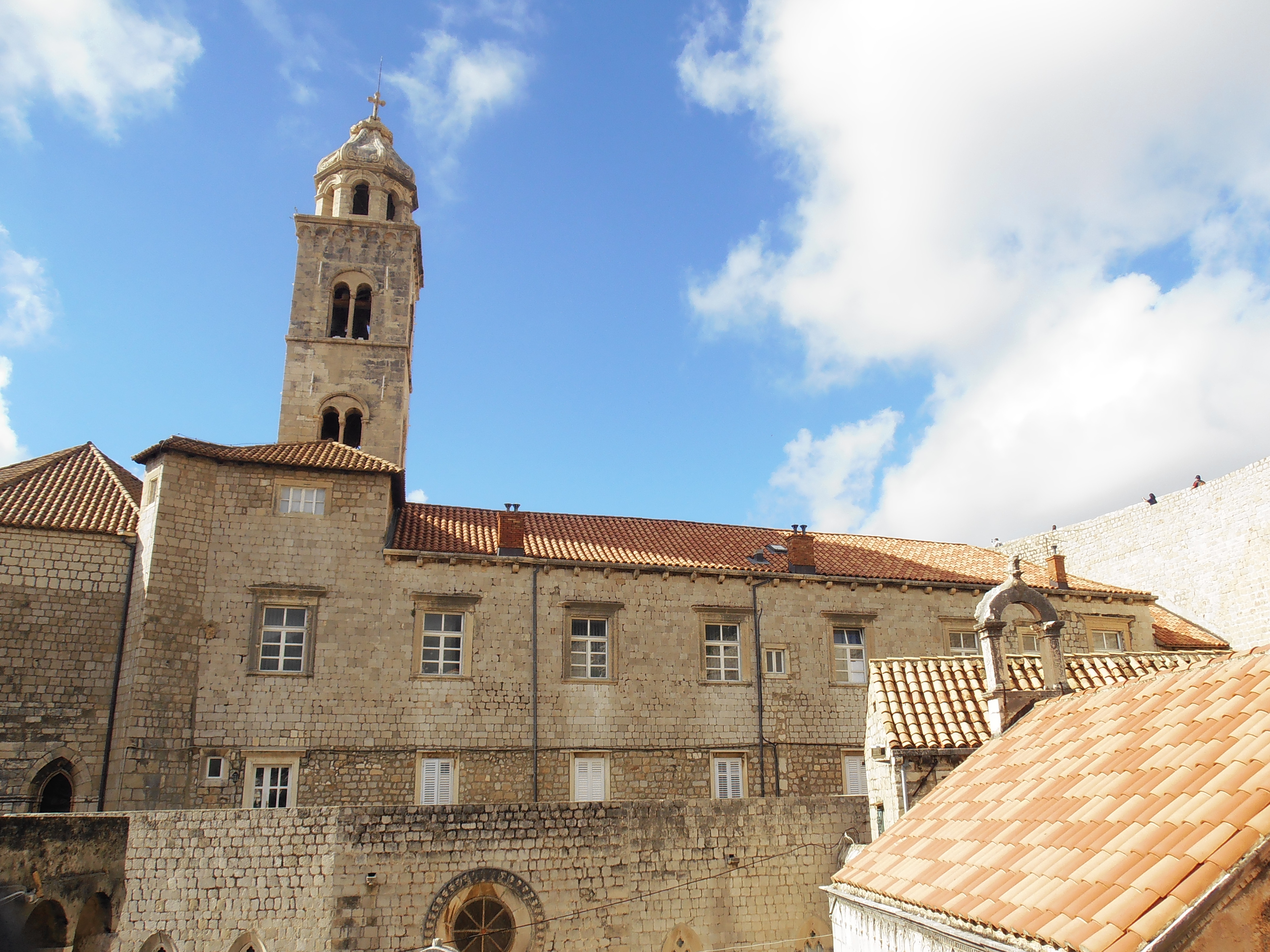 Dominican Church and Monastery in Dubrovnik